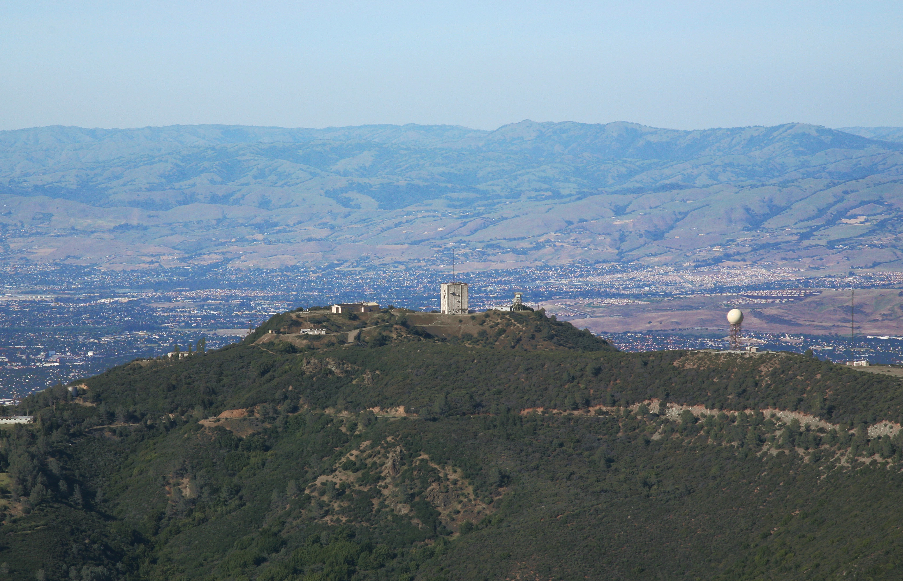 Mt Umunhum - one of the highest peaks in the coastal range overlooking San Jose and Silicon Valley. It used to be an early-warning radar site (the 5 story building on the peak)which was closed in 1980, so the land is now officially part of the Sierra Azul open space preserve. But it is not (yet) publically accessible pending clean-up of asbestos, lead, and black mold. But one day, it will be open for hikers again. This is the view seen by an aviator coming in from the coast towards the Bay Area, cresting the Santa Cruz mountains with San Jose just beyond. In winter there may be a dusting of snow around the peak.